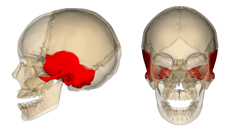 temporal bone from Anatomography[1] maintained by Life Science Databases(LSDB).